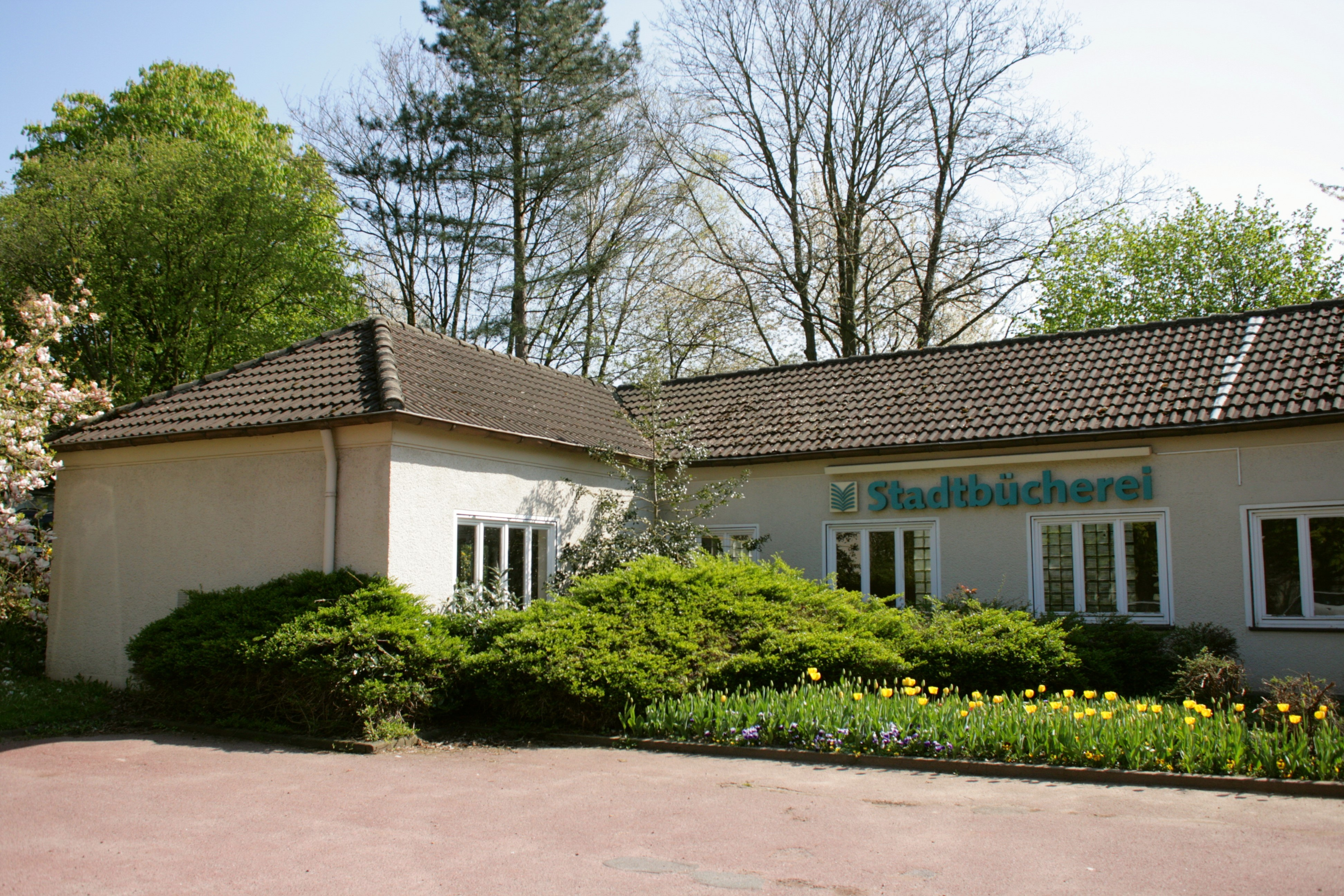 Bredenscheider Straße 8 in Hattingen